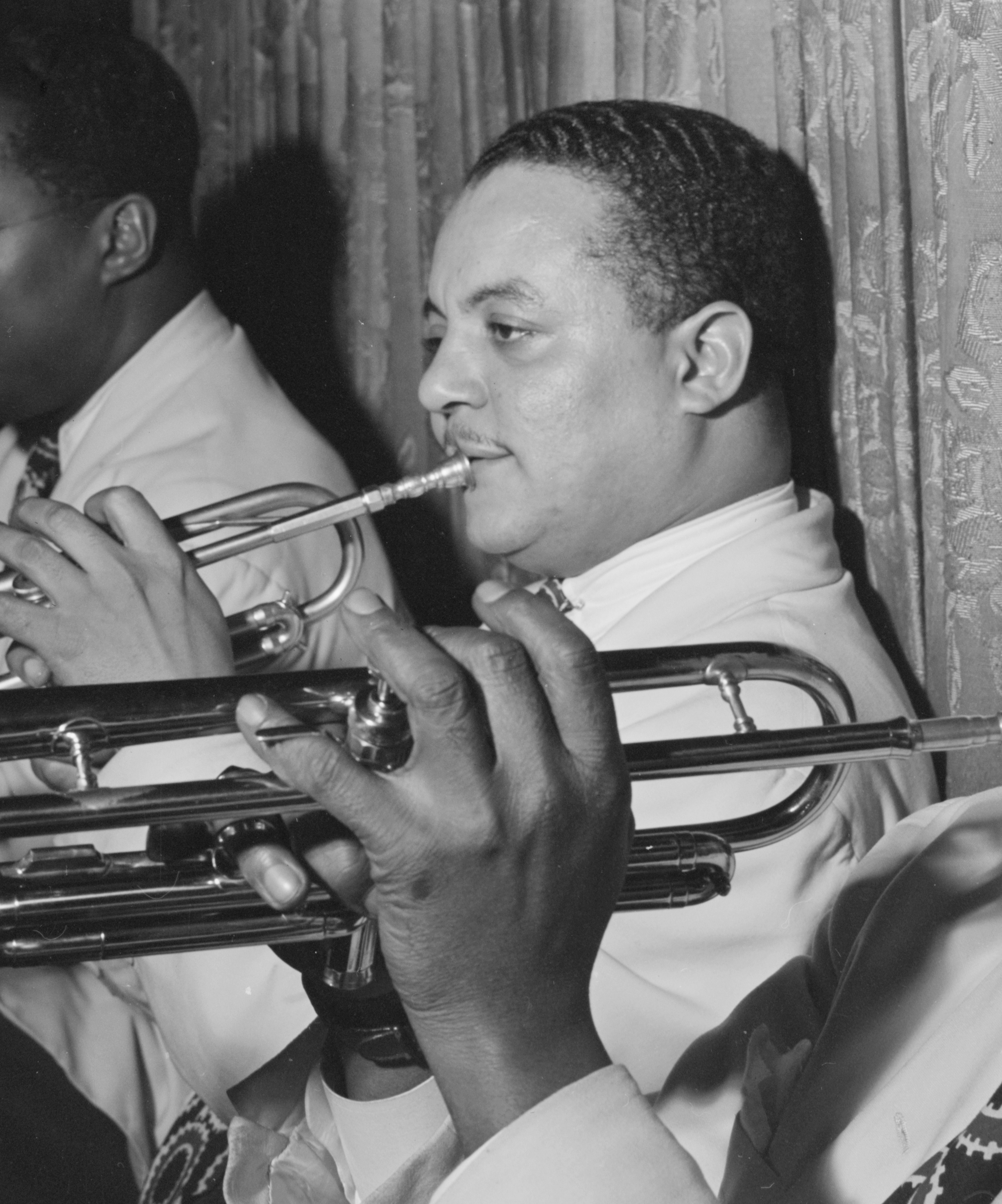 Portrait of Franc Williams, Harold Baker, and Cat Anderson, Aquarium, New York, N.Y., ca. Nov. 1946